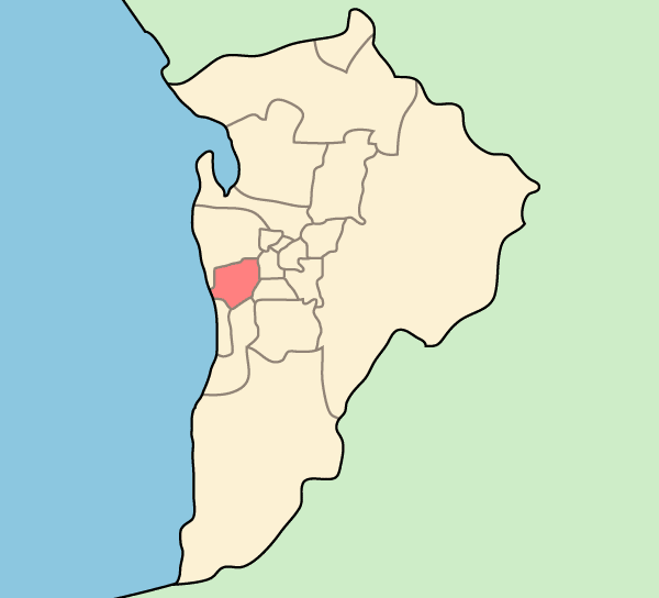 Locator Map for Adelaide-LGA-West Torrens-MJC.png Drawn by me in Illustrator and released under the GFDL